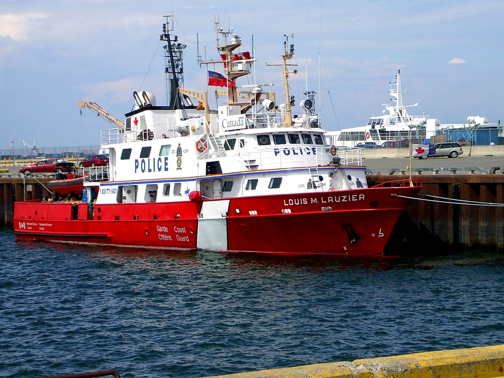 Although she carries Coast Guard colors, she's run mainly by the RCMP and SQ police. Louis M. Lauzier